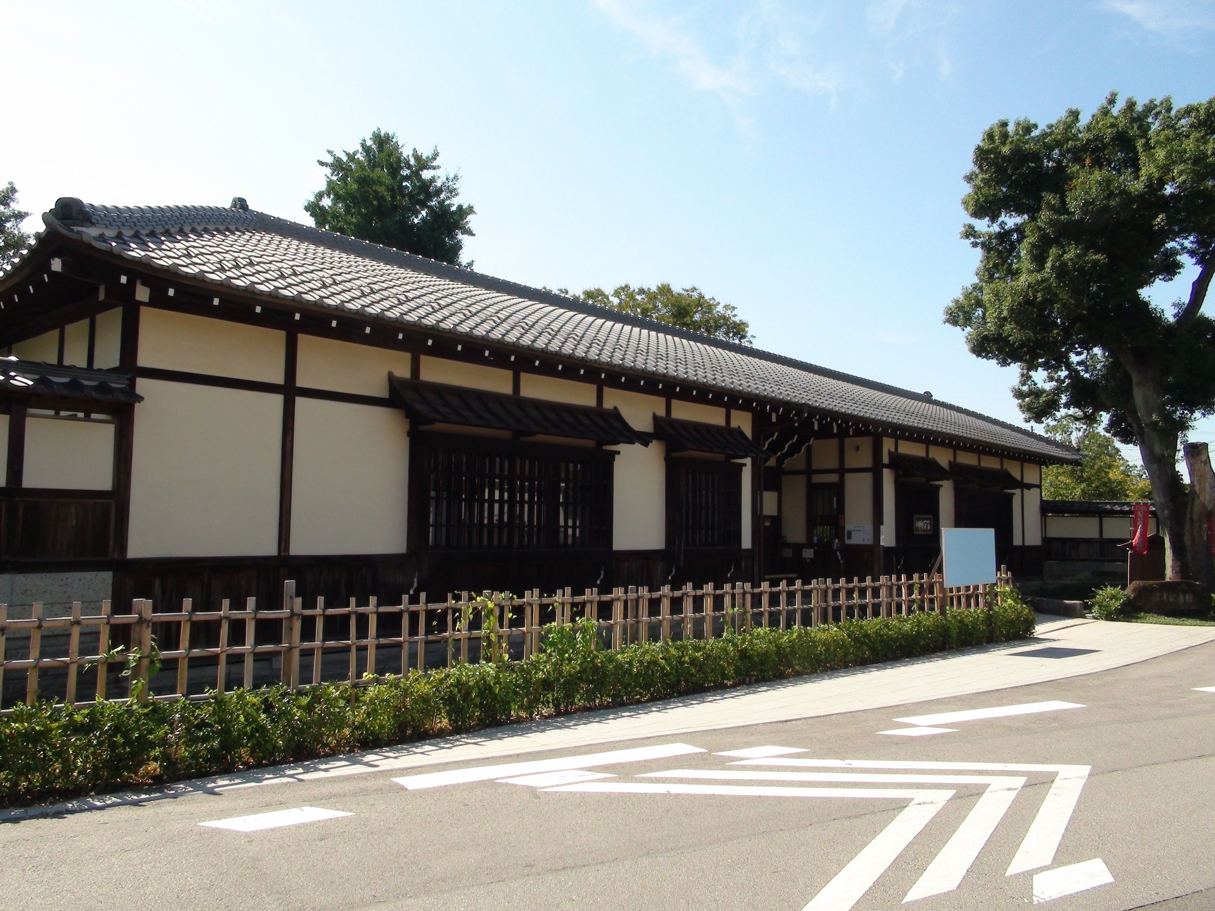 Nezu Memorial Museum in Yamanashi City Yamanashi Pref